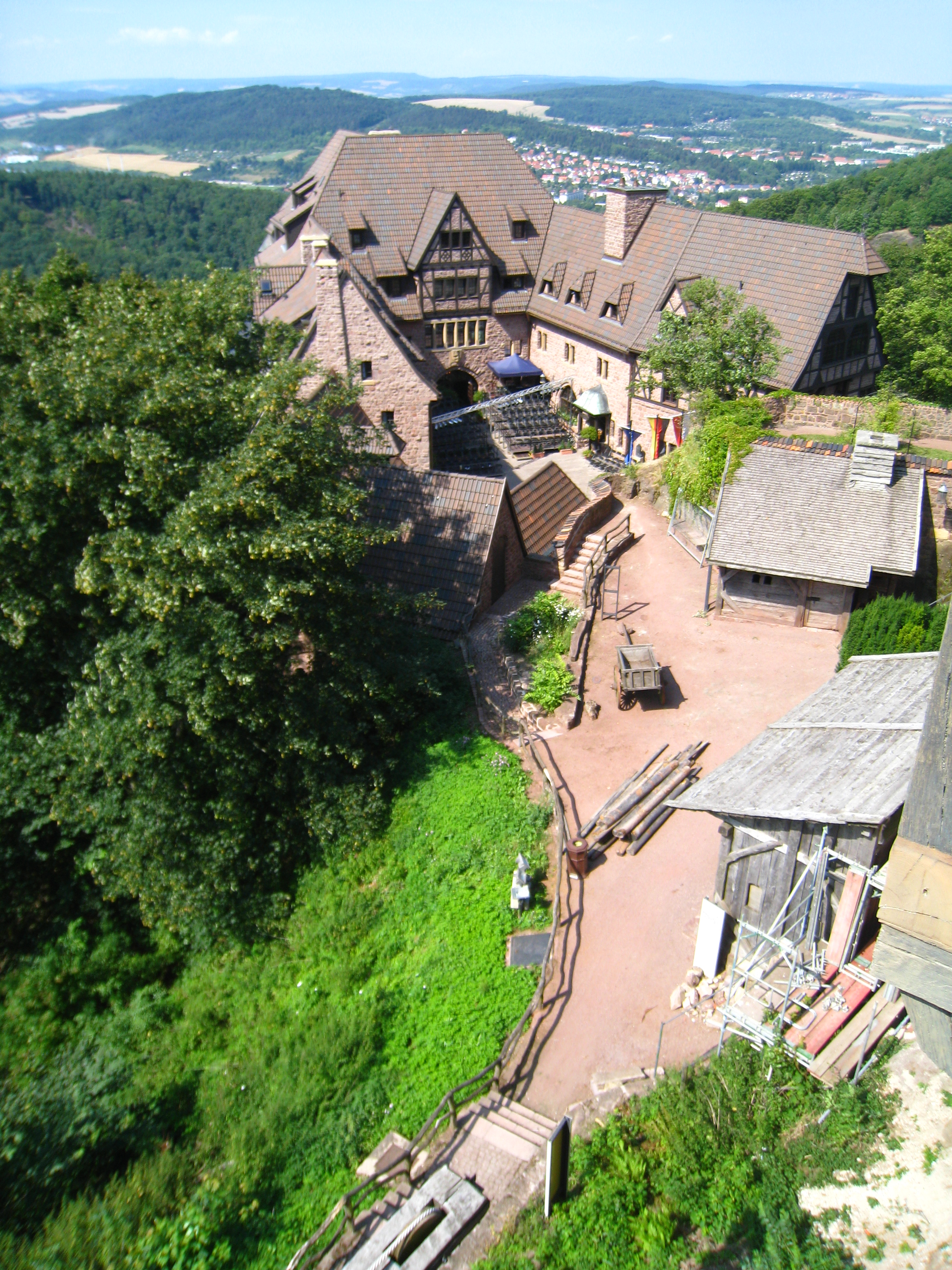 Wartburg castle courtyard, Eisenach, Thuringia, Germany